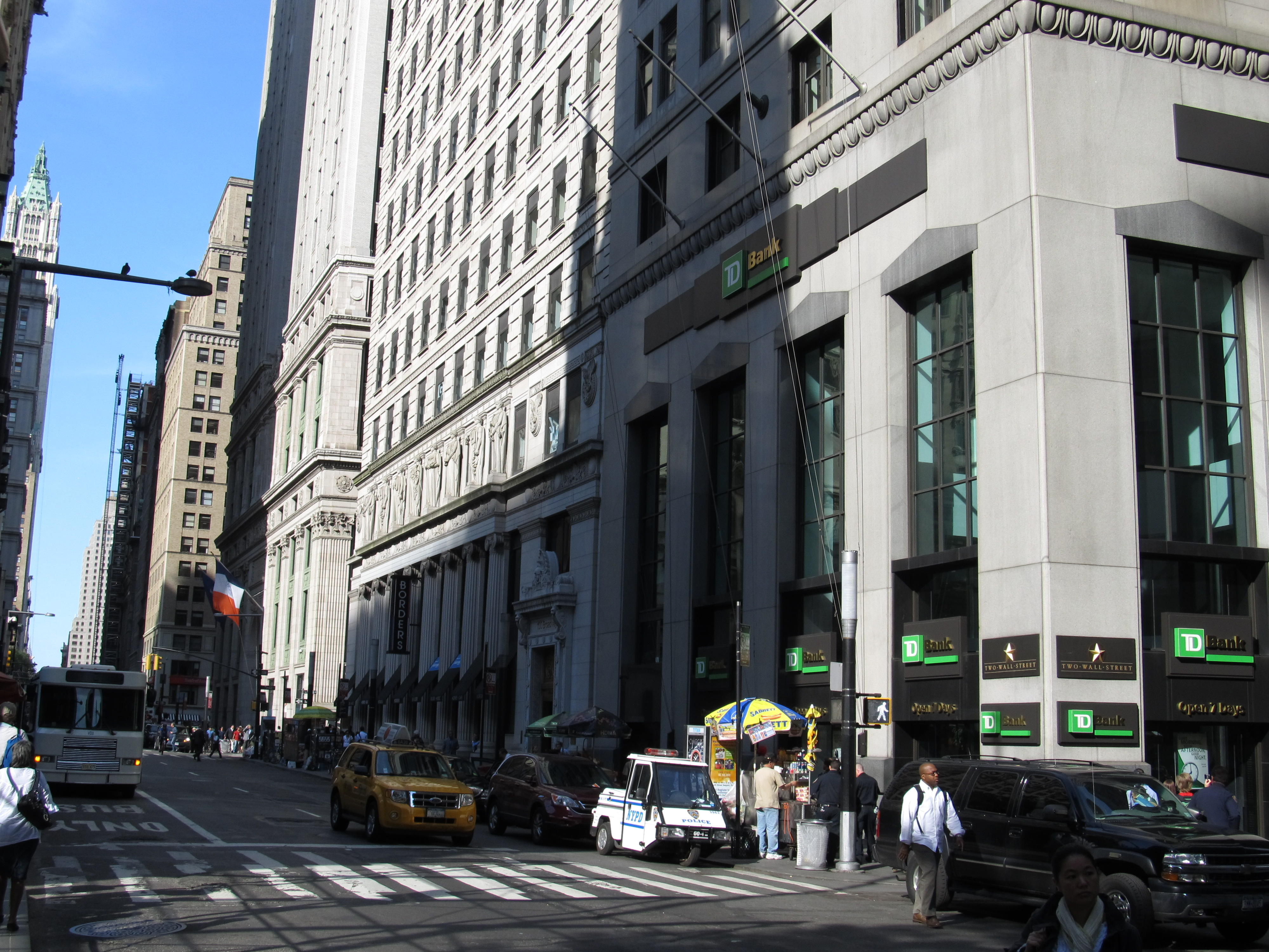 The American Surety Building is a historic skyscraper located at 100 Broadway, New York City, New York, opposite Trinity Church. It has been declared a landmark as one of Manhattan's most influential early skyscrapers. The building was constructed 1894-1896 to designs by noted architect Bruce Price, and was one of Manhattan's first buildings with steel framing and curtain wall construction. At its original 21 stories, it was Price's first tall building and the second tallest building in New York. In an interview, Price described his design as "a campanile with four pilaster faces, the seven flutes being represented by seven rows of windows". The building is set on an irregular, trapezoidal lot, and designed as a Neo-Renaissance tower clad in Maine granite with a 3-story base, an 12-story shaft, and a 6-story cap. (Its 4th and 15 stories are transitional.) The base is an Ionic entrance colonnade topped with sculptures in a classical style by J. Massey Rhind. Above rises a middle section of horizontally banded piers with vertical strips framing the windows, which culminates in a row of figural sculptures extending from the 14th to 15th stories. A further six-story cap (subsequently modified) featured a colonnade of Corinthian pilasters, stone cornice, and a crowning parapet of gilded metal acroteria on the setback 20th and 21st stories. In 1920-1922, New York architect Herman Lee Meader supervised alterations which included a new L-shaped annex that widened the tower from 7 to 11 bays, and addition of several stories, which greatly modified the original cap.